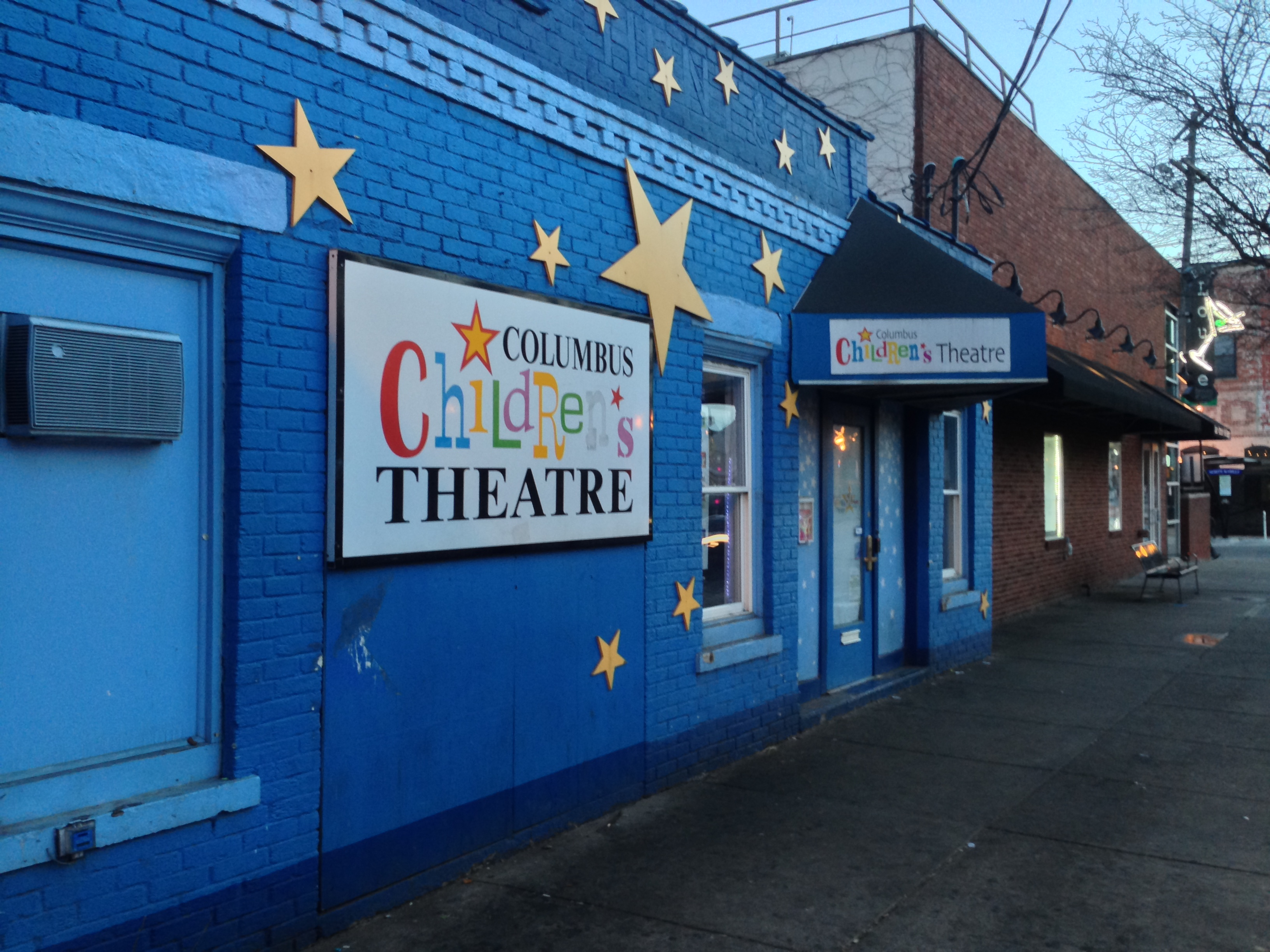 Columbus Children's Theater